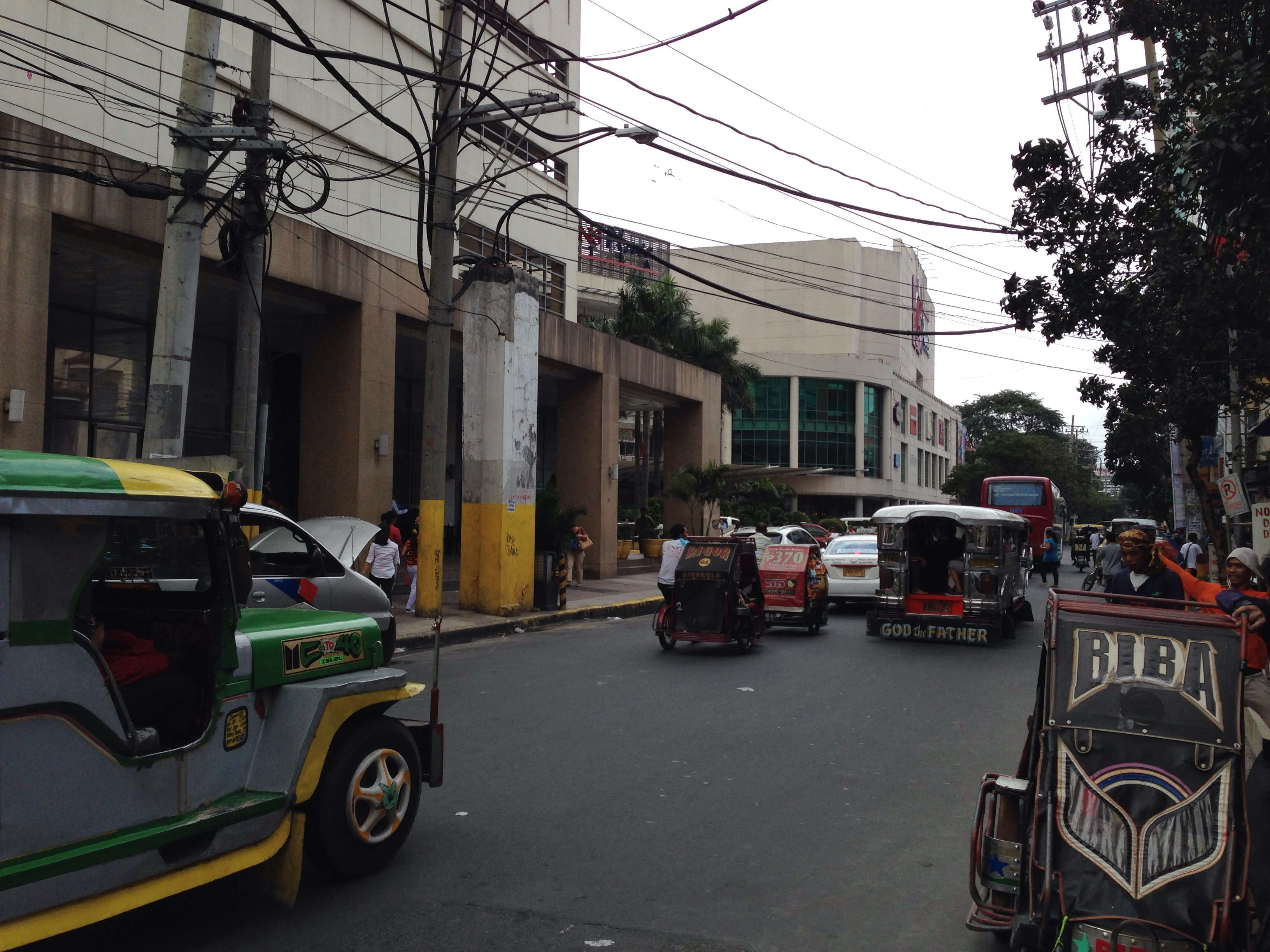 Pedro Gil Street, Ermita, Manila